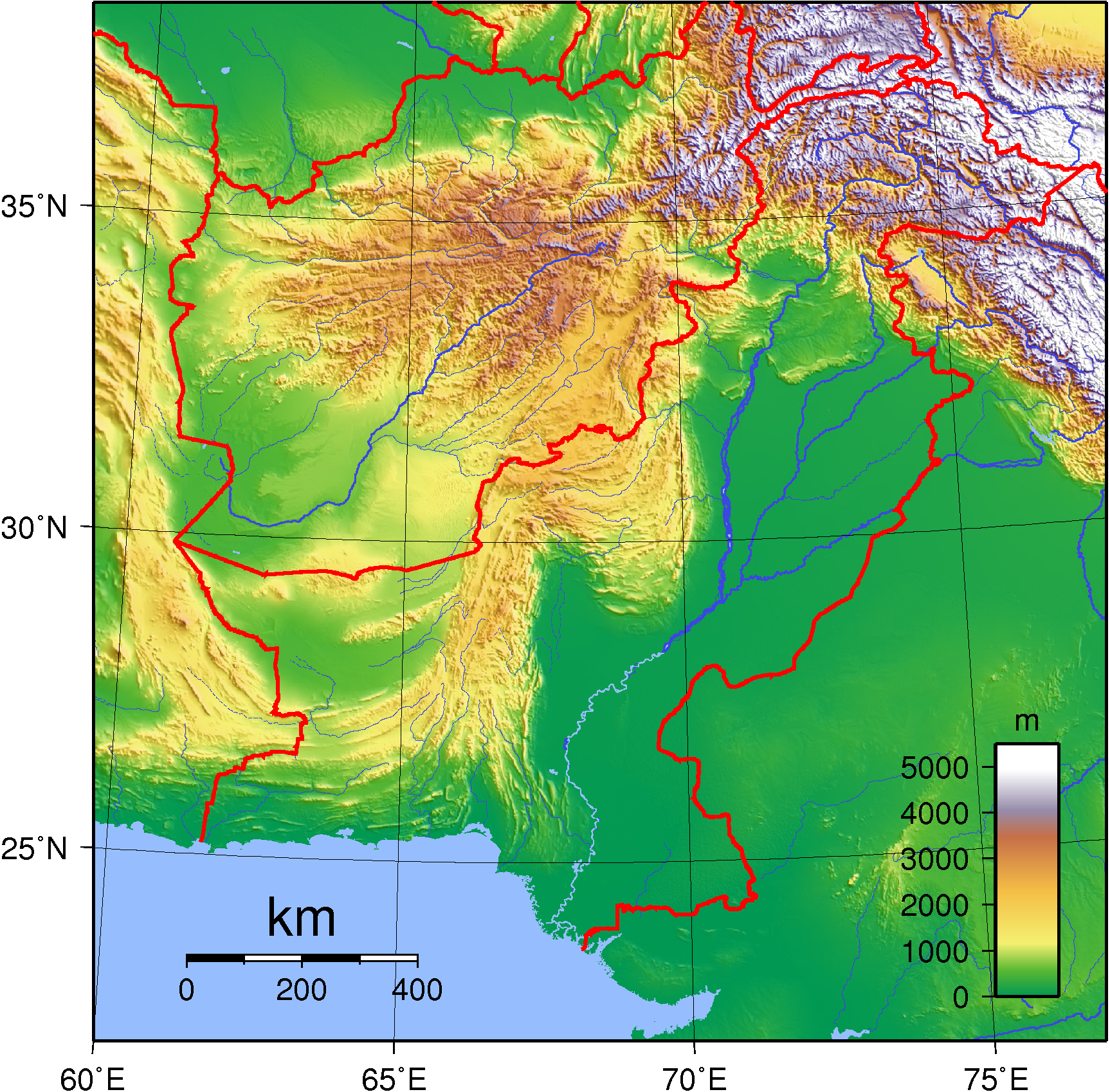 Topographic map of Pakistan